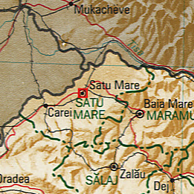 Map of Satu Mare Municipality, Romania.